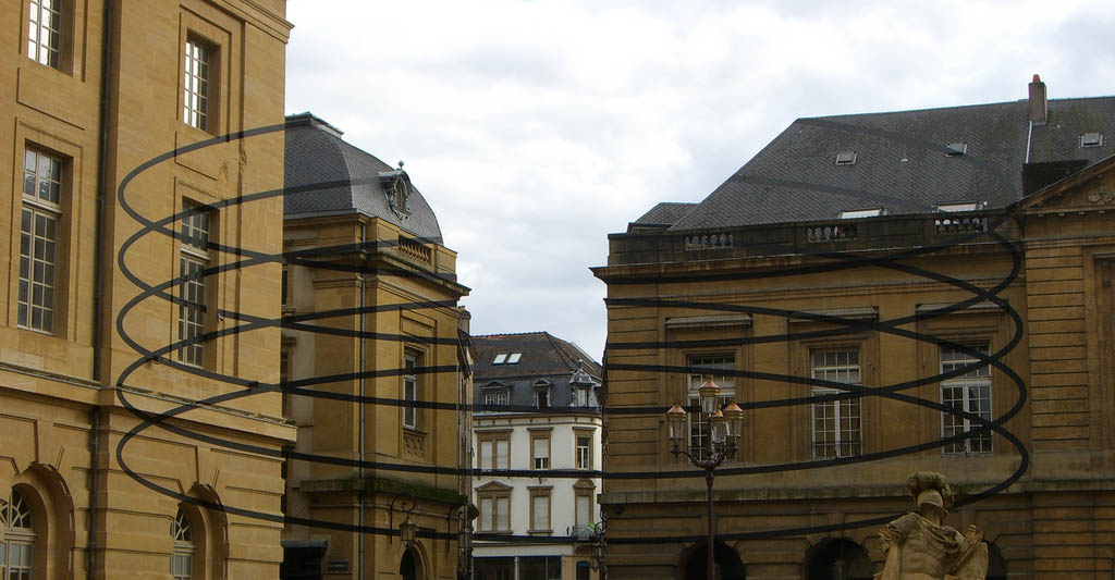 Five open ellipses. Street art of Felice Varini, on the Place d'Armes in Metz, in 2009.